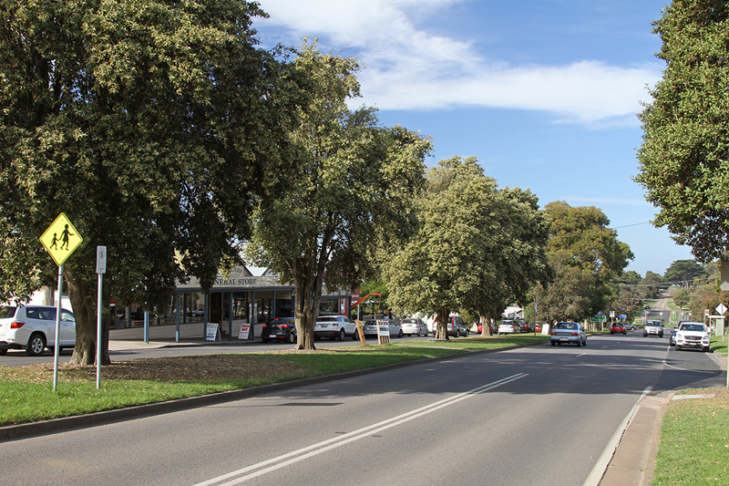 View looking east along Cook St, the main street of Flinders, Victoria, Australia.